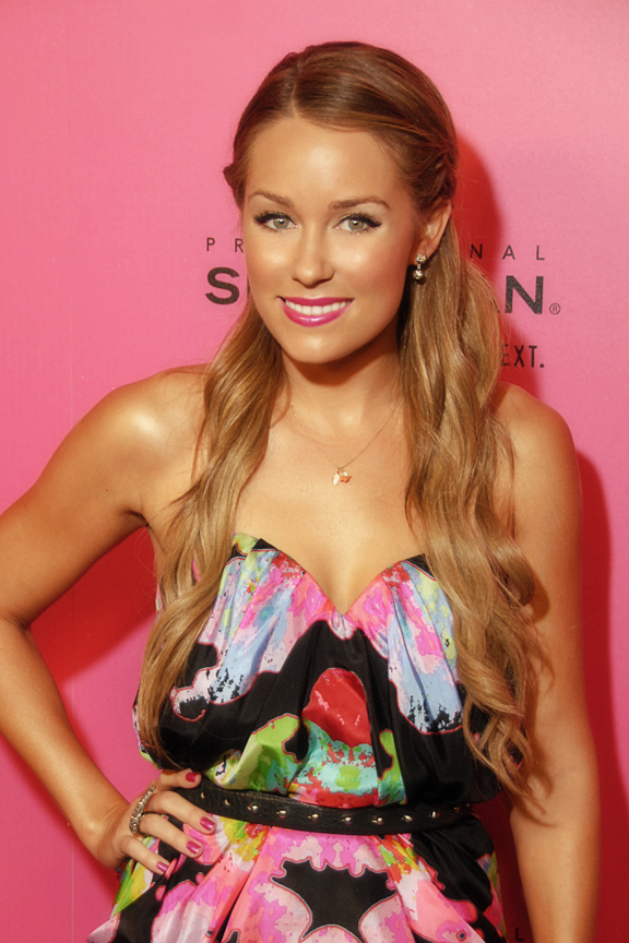 attending "The 6th Annual Hollywood Style Awards" Beverly Hills, CA on Oct. 10, 2009 - Photo by Glenn Francis of